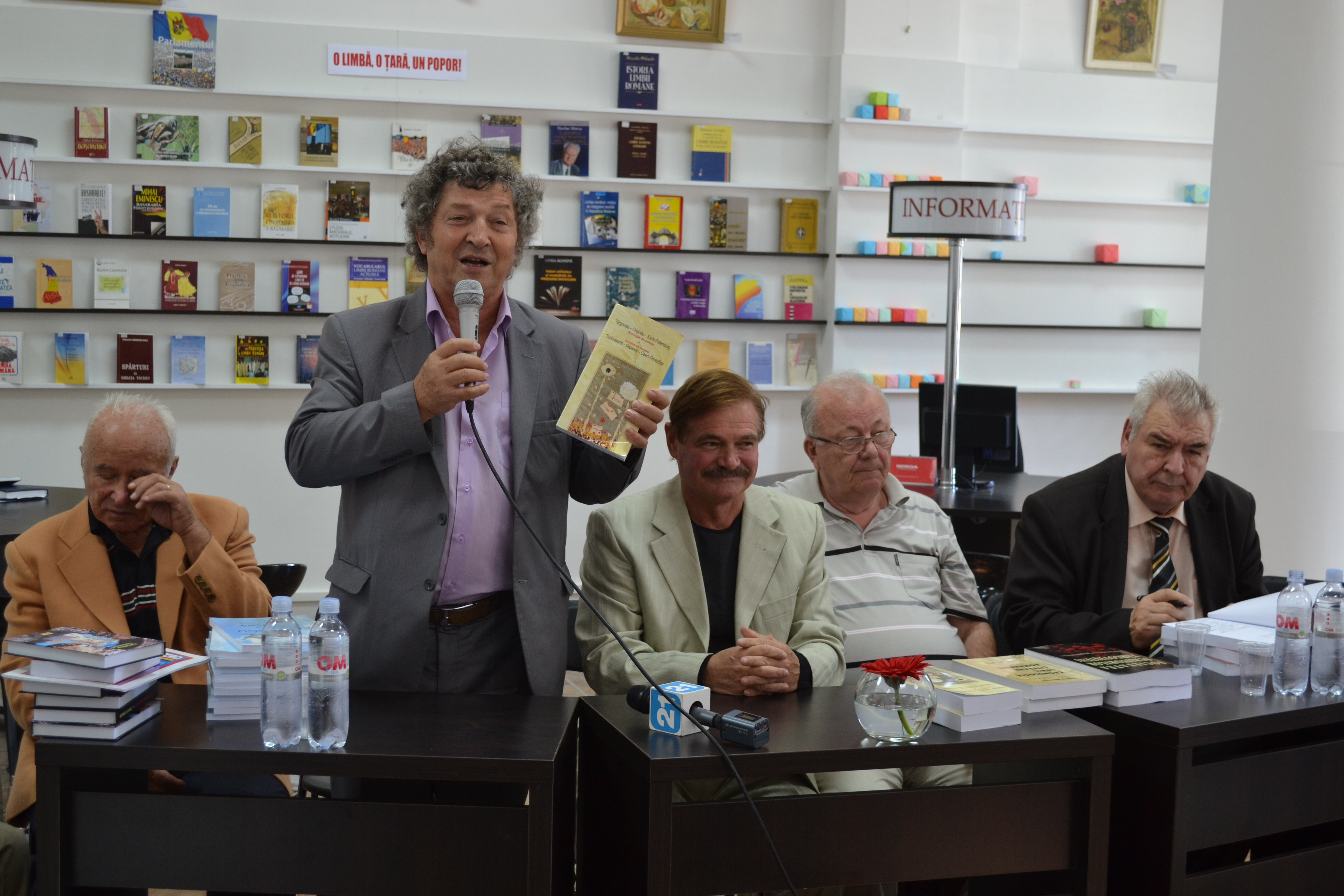 Iulian Filip